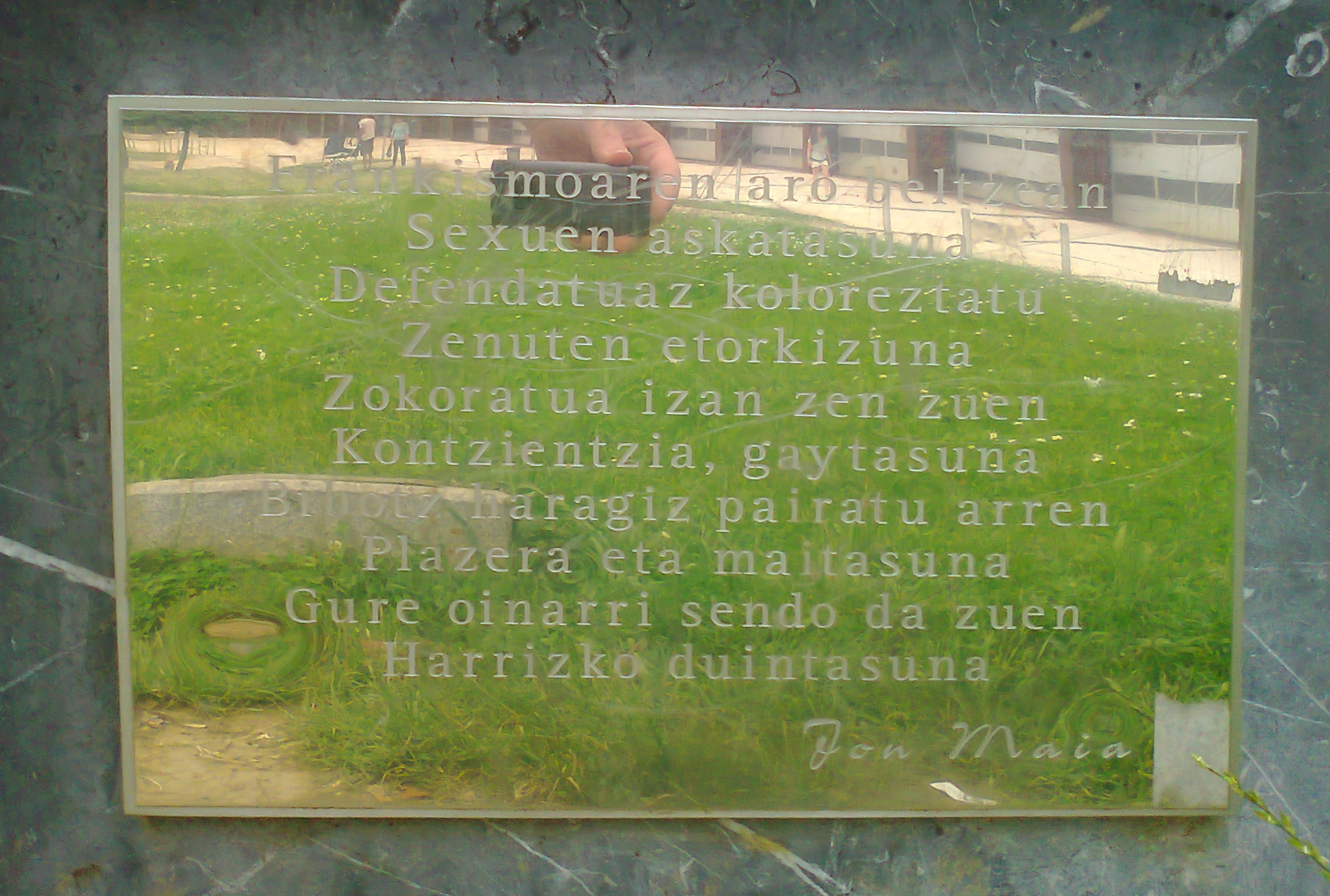 Plaque of the Memorial to gay people persecuted under Francoist at Durango, Biscay, Spain.